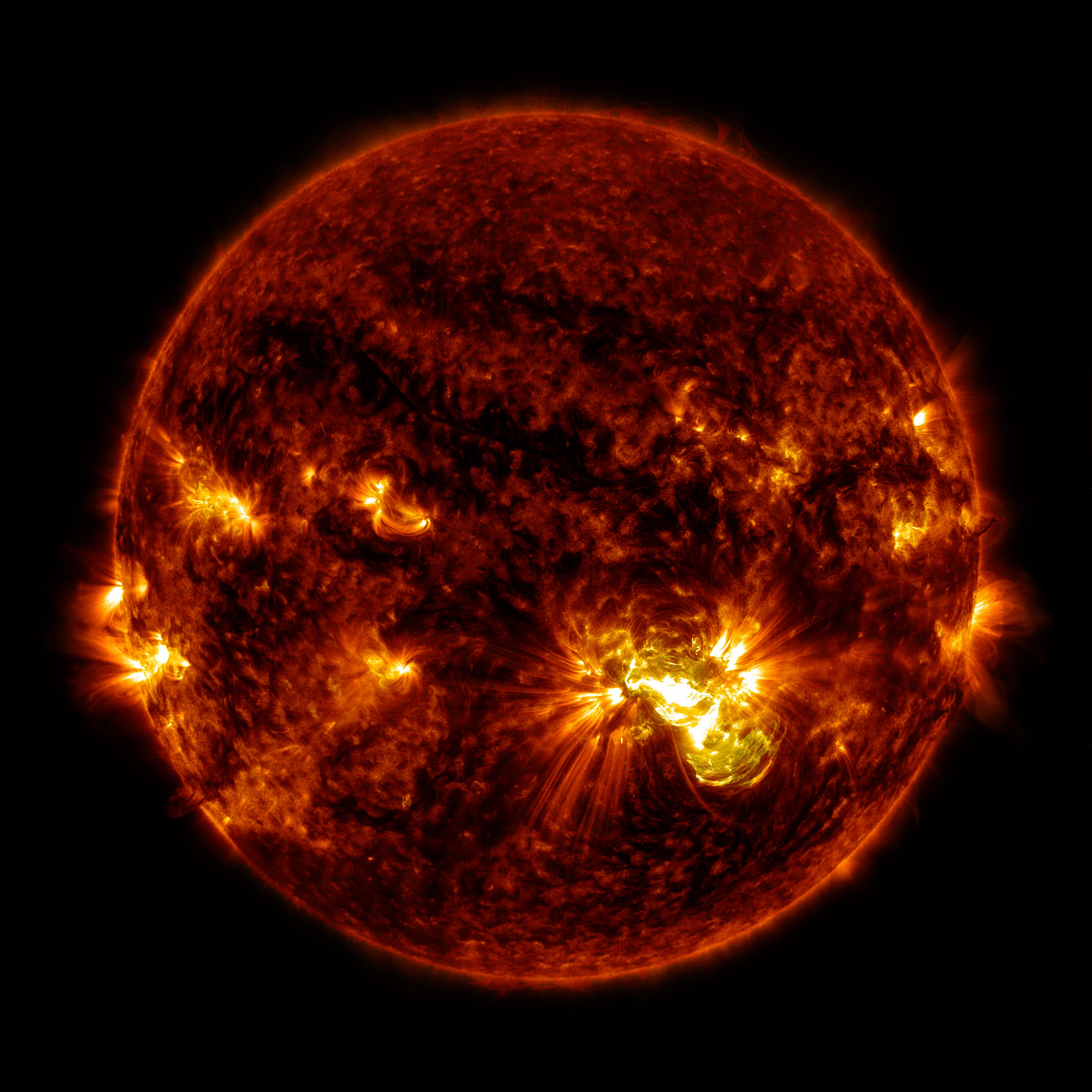 Active region AR 12192 on the sun erupted with a strong flare on Oct. 24, 2014, as seen in the bright light of this image captured by NASA's Solar Dynamics Observatory. This image shows extreme ultraviolet light that highlights the hot solar material in the sun's atmosphere. Credit: NASA/GSFC/SDO More info: The sun emitted a significant solar flare, peaking at 5:40 p.m. EDT on Oct. 24, 2014. NASA's Solar Dynamics Observatory, which watches the sun constantly, captured images of the event. Solar flares are powerful bursts of radiation. Harmful radiation from a flare cannot pass through Earth's atmosphere to physically affect humans on the ground, however -- when intense enough -- they can disturb the atmosphere in the layer where GPS and communications signals travel. This flare is classified as an X3.1-class flare. X-class denotes the most intense flares, while the number provides more information about its strength. An X2 is twice as intense as an X1, an X3 is three times as intense, etc. The flare erupted from a particularly large active region -- labeled AR 12192 -- on the sun that is the largest in 24 years. This is the fourth substantial flare from this active region since Oct. 19. Credit: NASA's Goddard Space Flight Center NASA image use policy. NASA Goddard Space Flight Center enables NASA’s mission through four scientific endeavors: Earth Science, Heliophysics, Solar System Exploration, and Astrophysics. Goddard plays a leading role in NASA’s accomplishments by contributing compelling scientific knowledge to advance the Agency’s mission. Follow us on Twitter Like us on Facebook Find us on Instagram